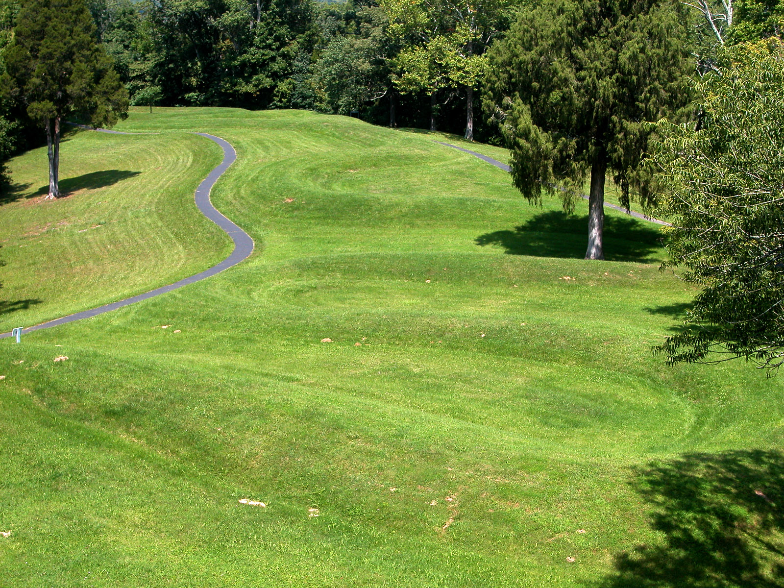 Serpent mound - a Native American burial ground.